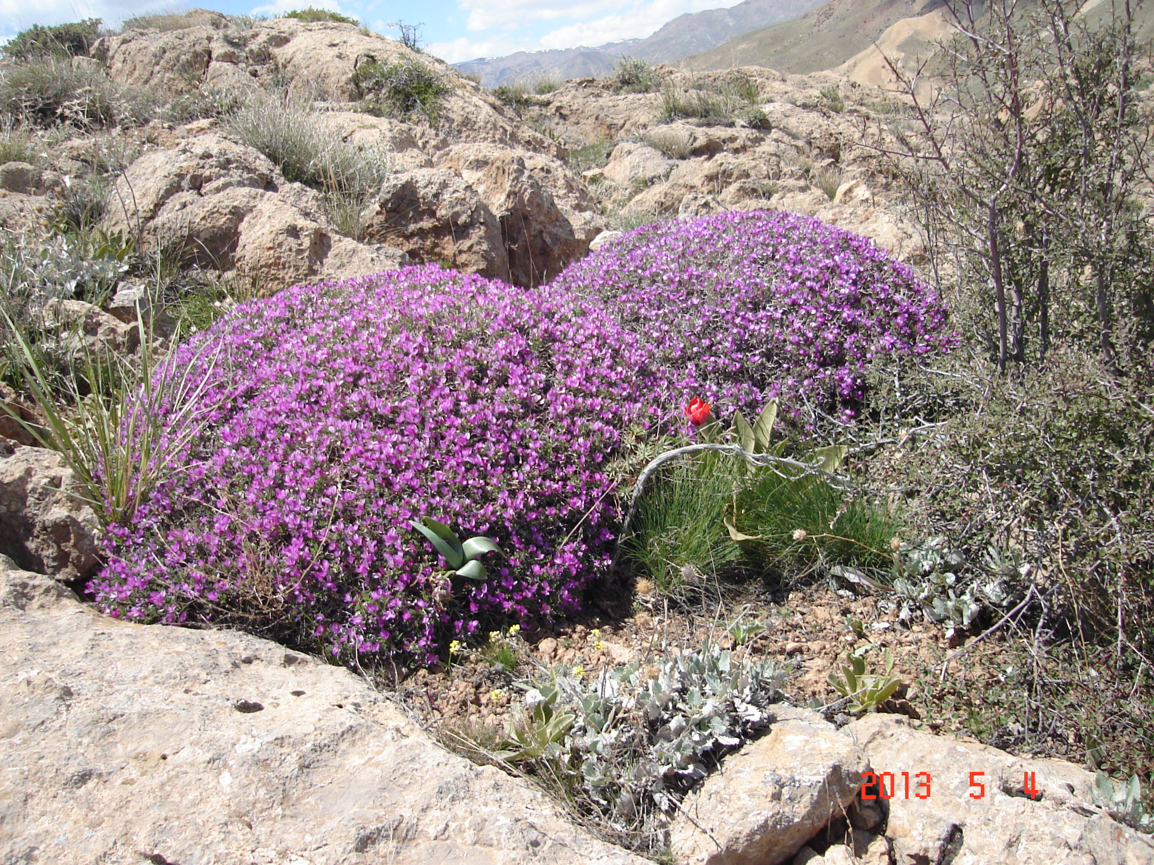 Onobrychis cornuta?